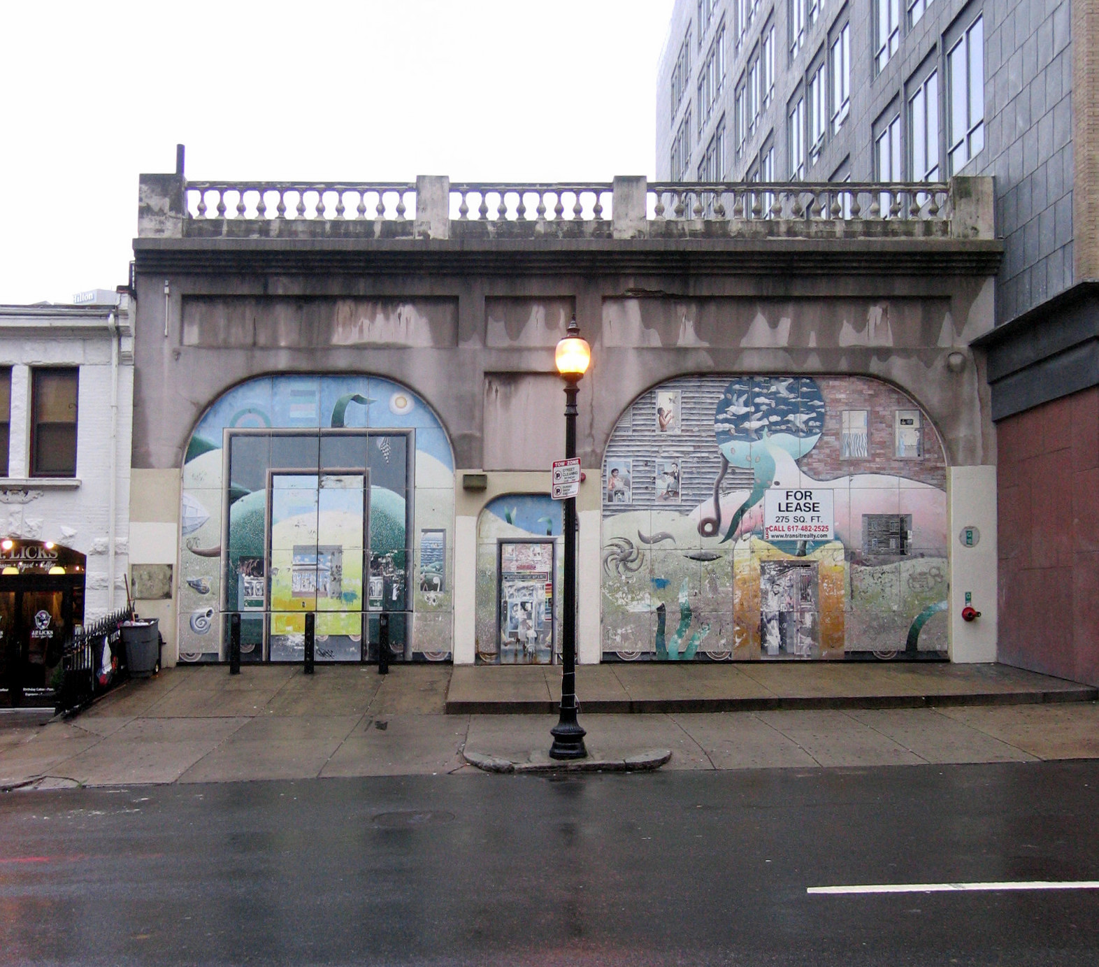 The Newbury Street facade of the former Massachusetts Avenue surface station in September 2011